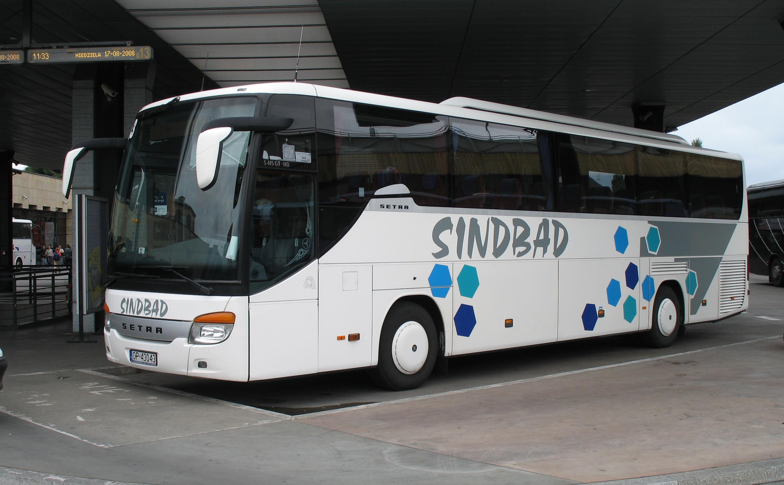 Setra S 415 GT-HD coach (#43) in Kraków, Poland. Built 2005, Sindbad Opole operator.